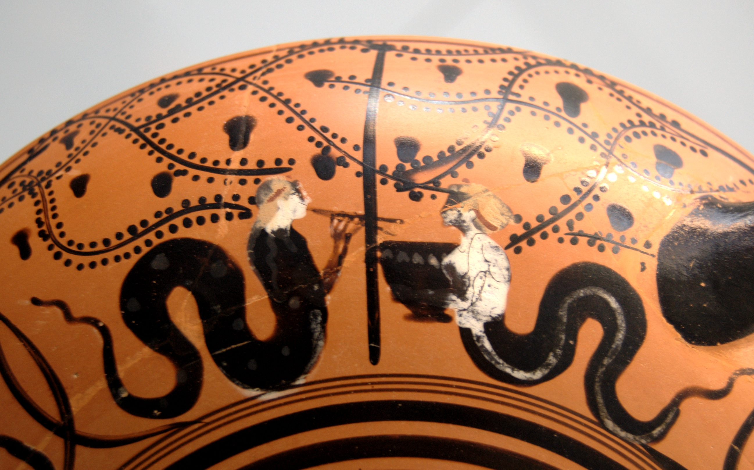 Blond grapevine nymphs with snake tails are celebrating the new wine. Side A from an Attic black-figure kylix, ca. 510 BC.